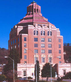 Asheville City Hall. This building epitomizes the Art Deco style of the 1920s